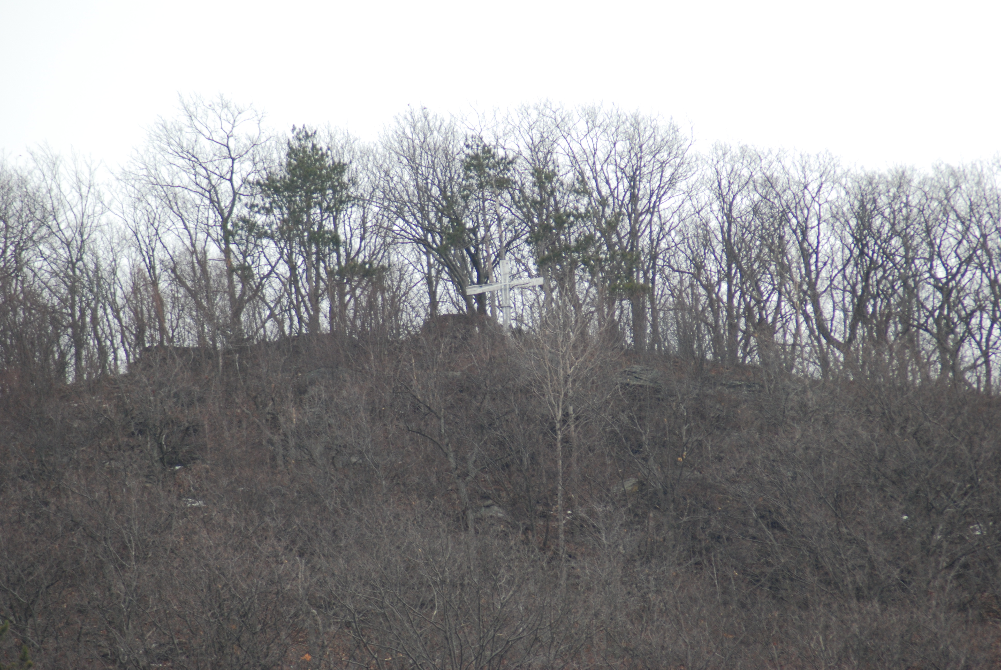 mohawk airlines flight 40 crash site near blossburg pa north on route 15.